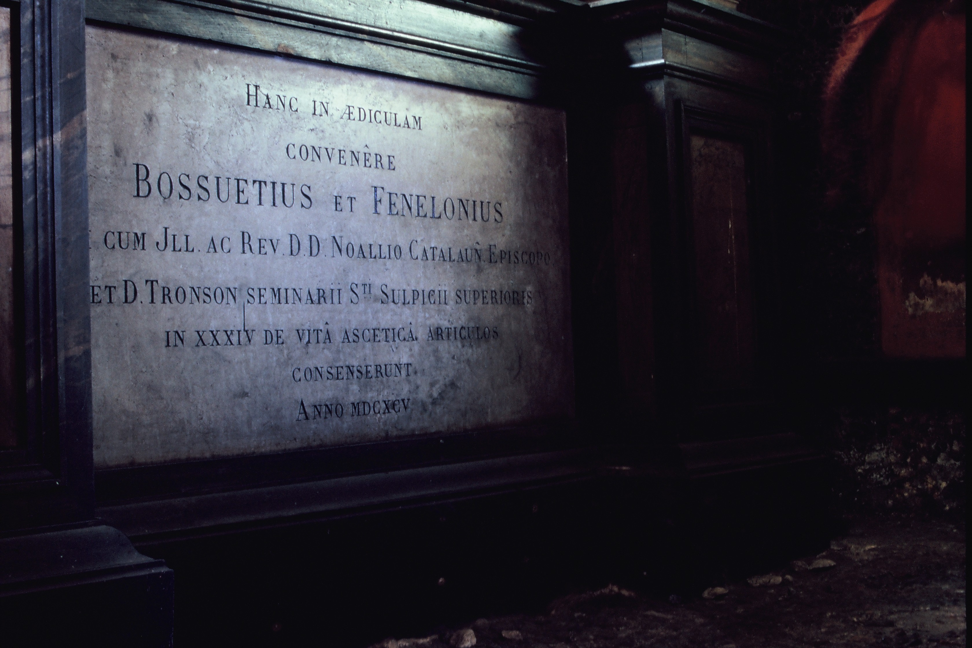 Inscription in memory of Bossuet & Fénelon debat about quietism, in Saint-Sulpice seminary, Issy-les-Moulineaux, France